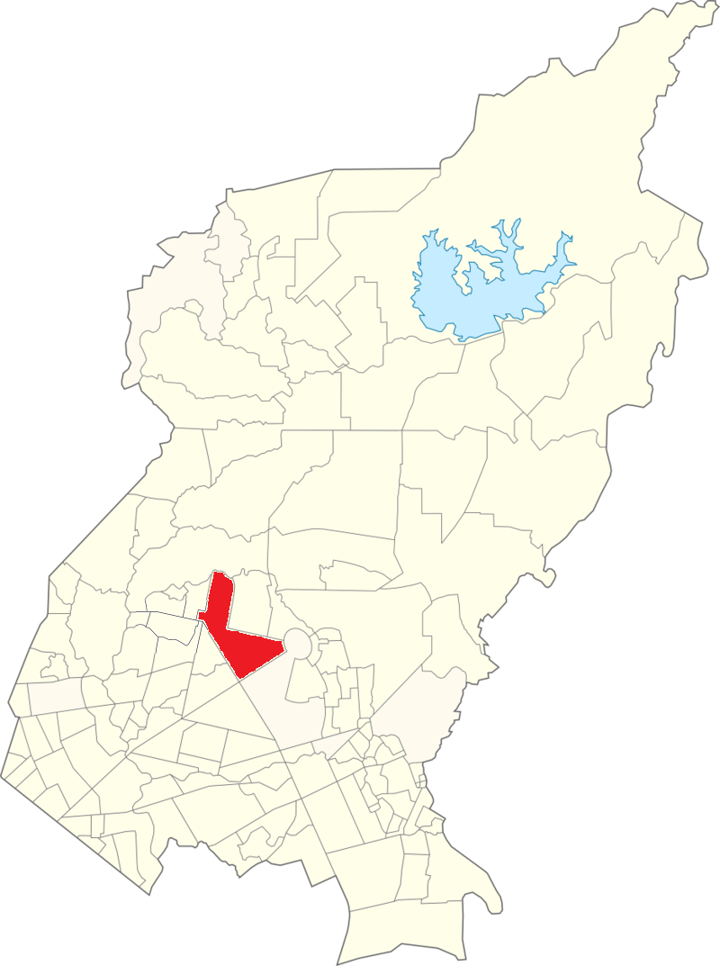 North Edsa